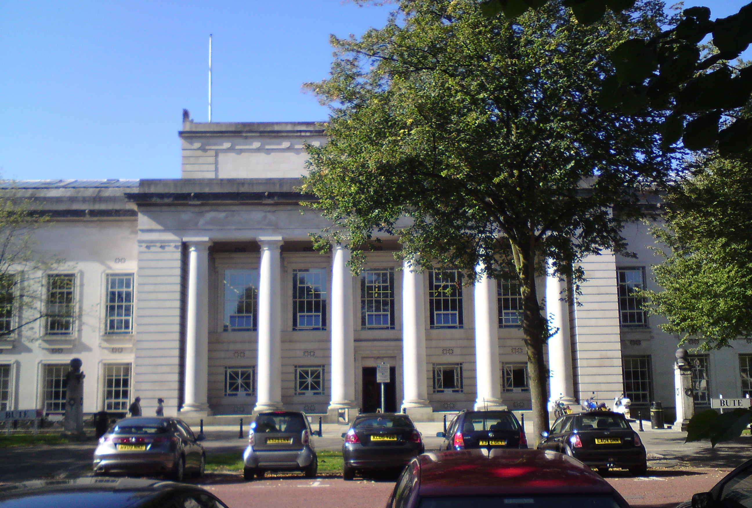 Bute Building, Cardiff University, Wales